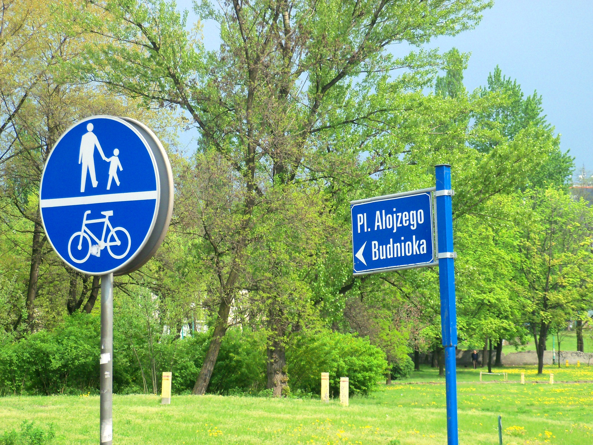 Budnioka Square in Katowice